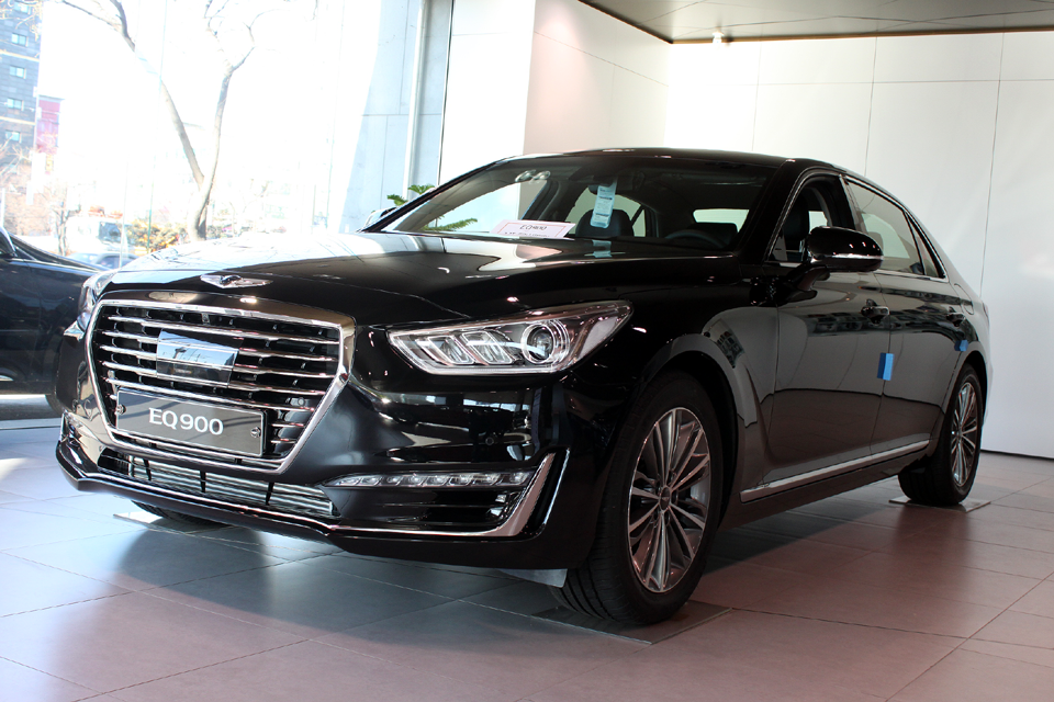 2016 Genesis EQ900 Front-side